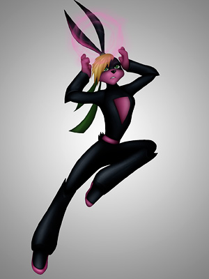 Digital fan art piece of Loonatics Unleashed animated series.